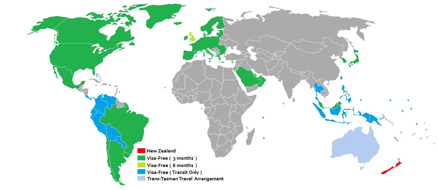 Holders of passports of these countries may travel to New Zealand without obtaining a visa New Zealand Electronic Travel Authority (3 months) Electronic Travel Authority (6 months) Transit exempt (24 hours) Australia (deemed to hold resident status on arrival)